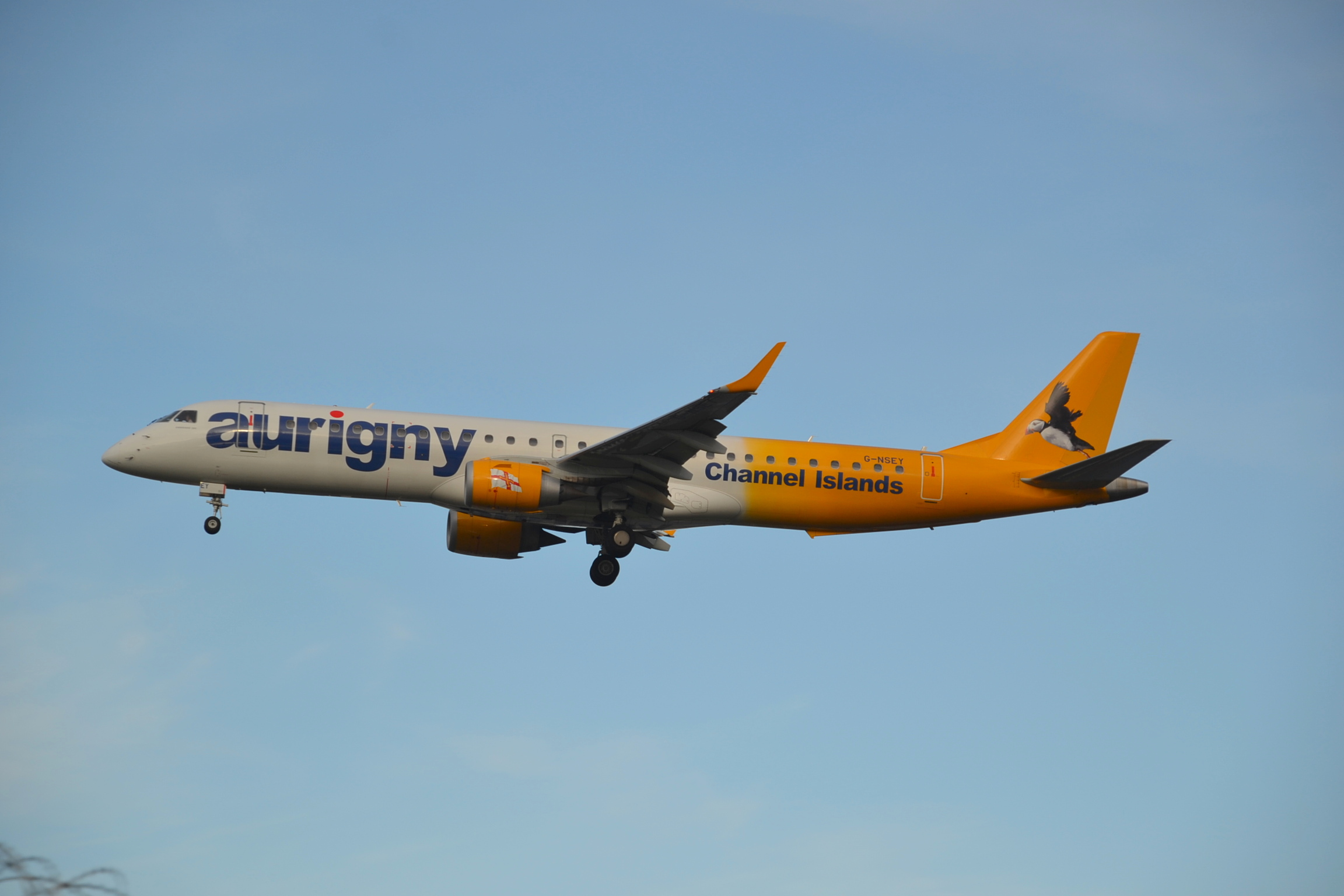 Embraer Emb-195 of Aurigny Air Services on final approach to rwy.26L at Gatwick-LGW,05/01/16.